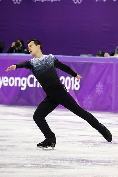 Patrick Chan (CAN) skates his short program at the 2018 Winter Olympic Games in PyeongChang (KOR)